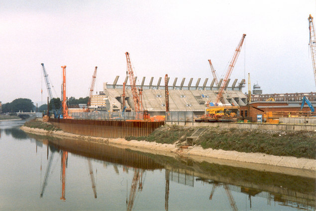 Demolition of the old Arms Park (on site of the Millennium Stadium), Cardiff, Wales